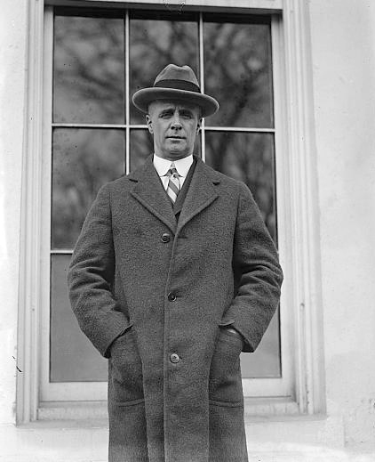 Commander Donald MacMillan at WhiteHouse